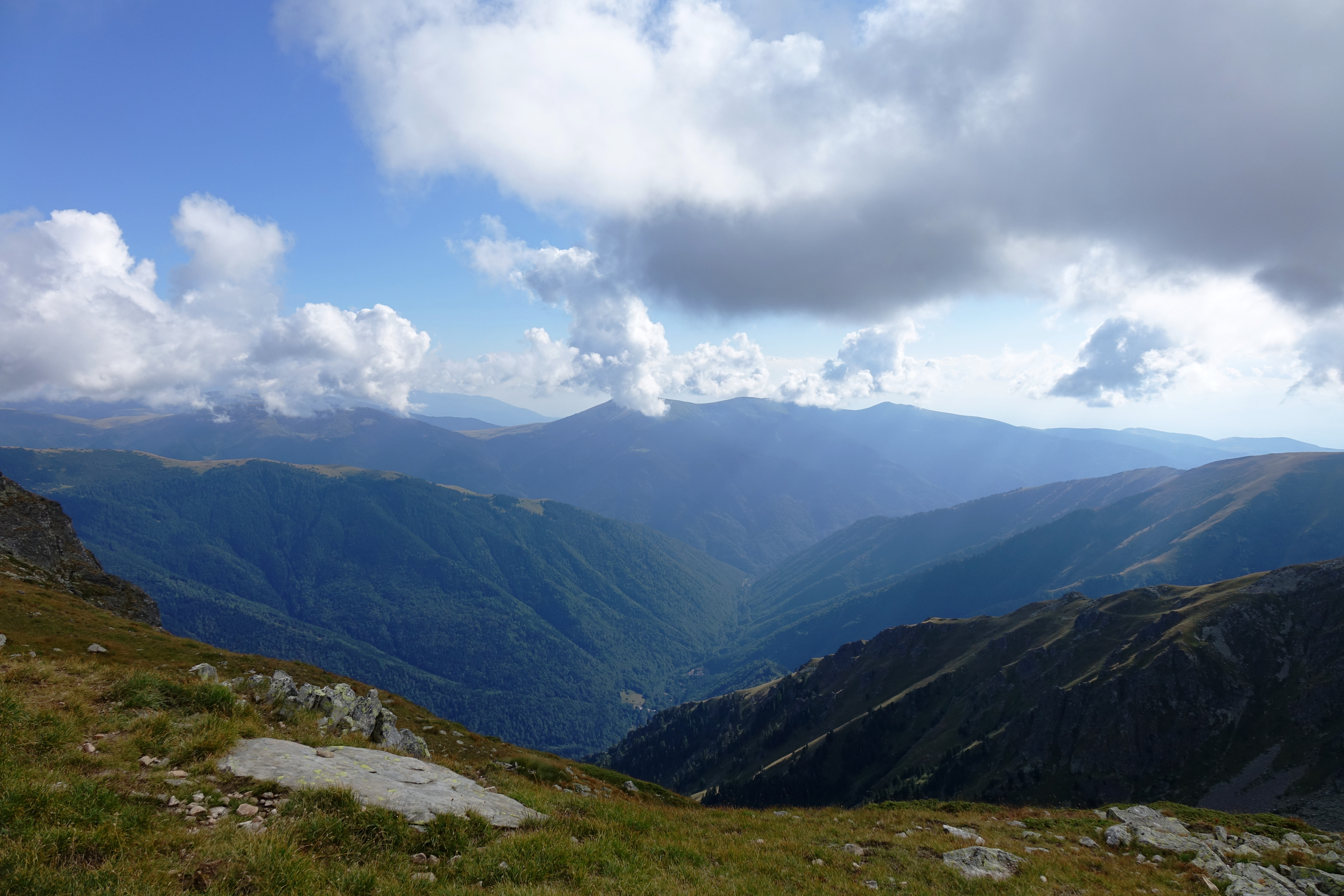 Rila Monastery Nature Park, Rilska River